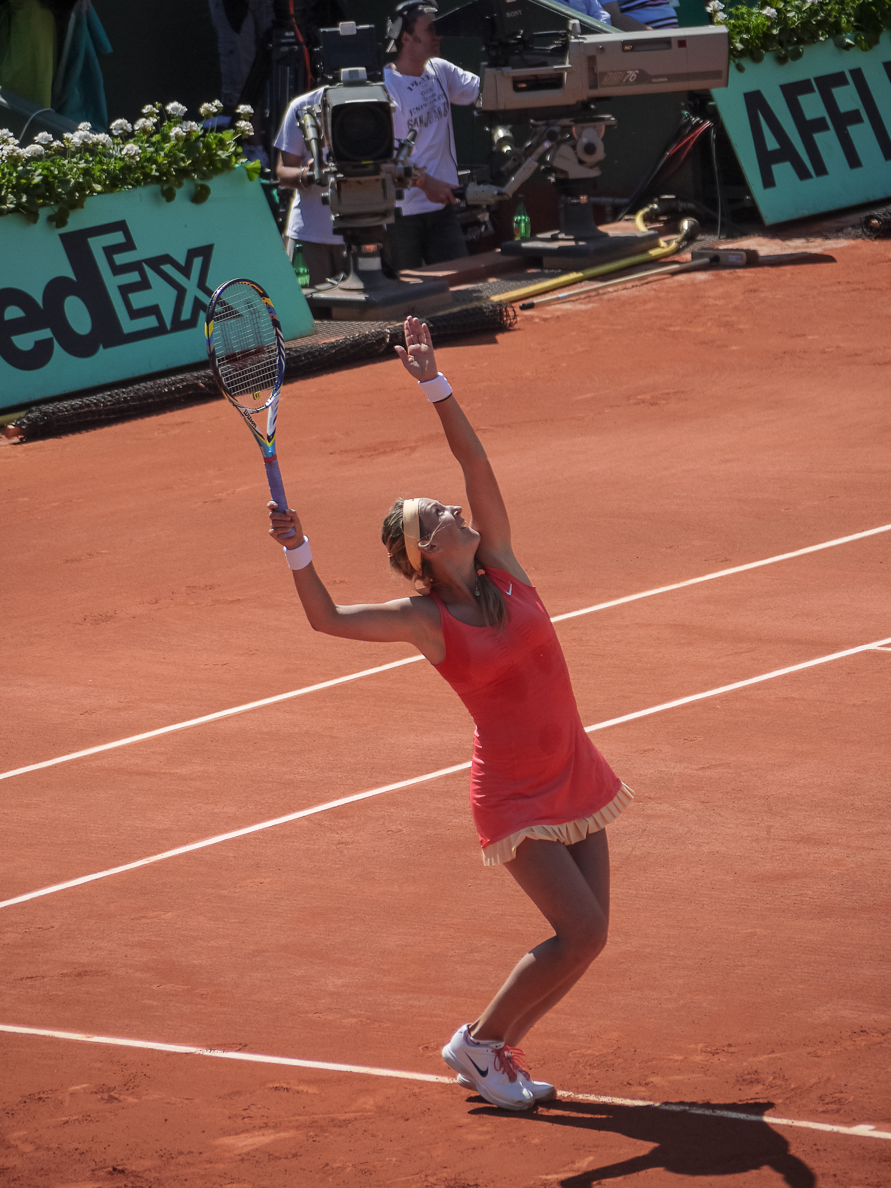 2ème tour Roland Garros 2012 : Victoria Azarenka (BLR) def. Dinah Pfizenmaier (GER)